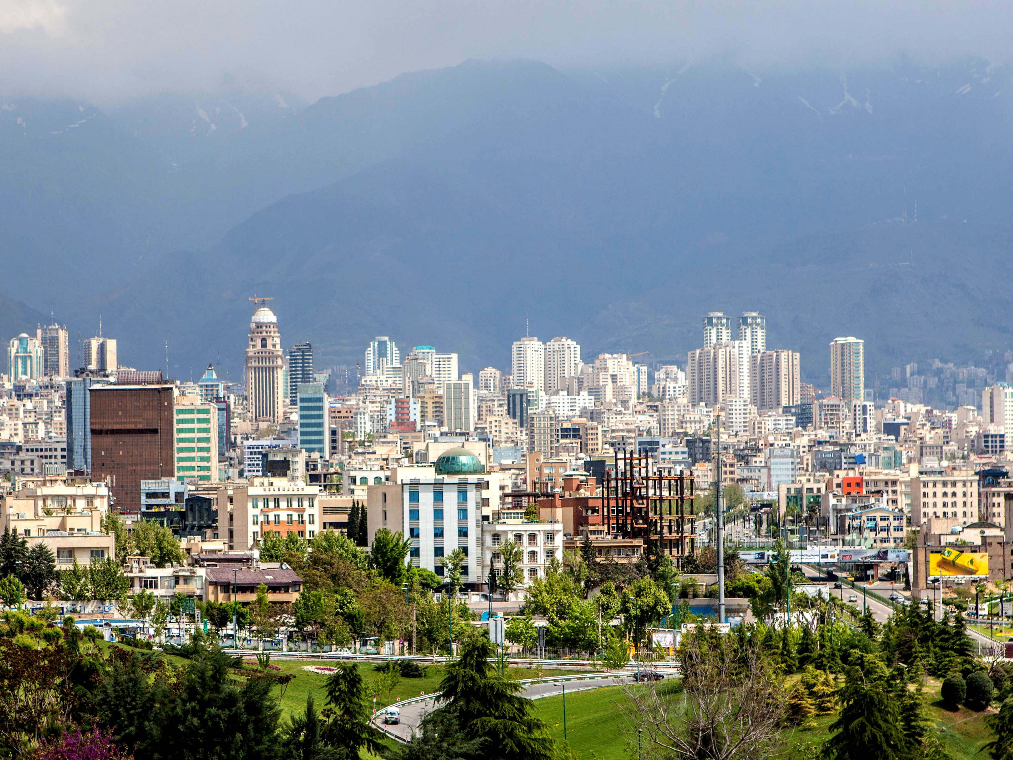 A view of North of Tehran from Aab o Aatash (Water & Fire) Park